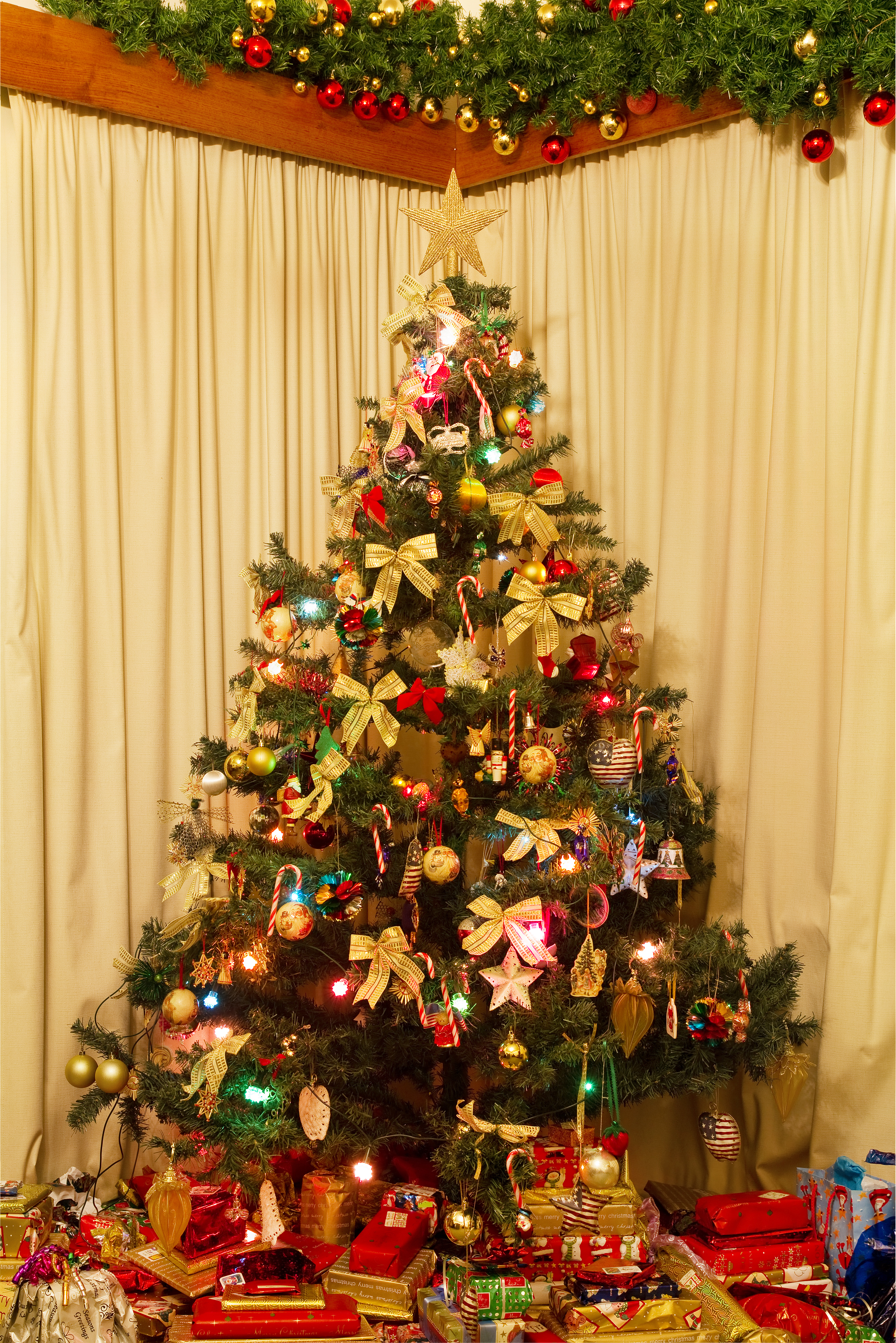 A family christmas tree.